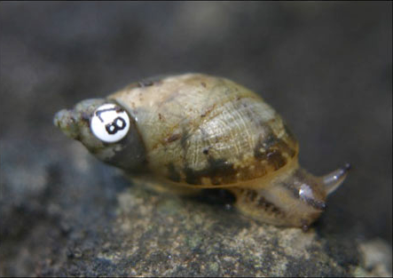 Photo of right side view of Novisuccinea chittenangoensis. The snail is marked with a number for monitoring the population.